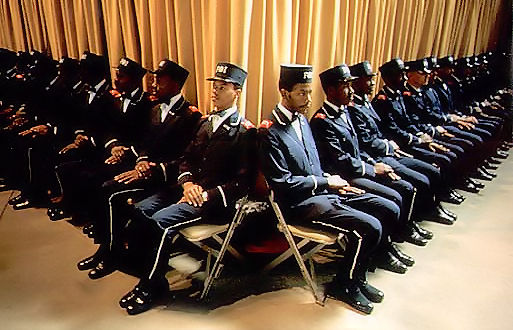 Fruit of Islam, a special group of bodyguards for Muslim leader Elijah Muhammad, sits at the bottom of the platform while he delivers his annual Savior`s Day message in Chicago, March 1974